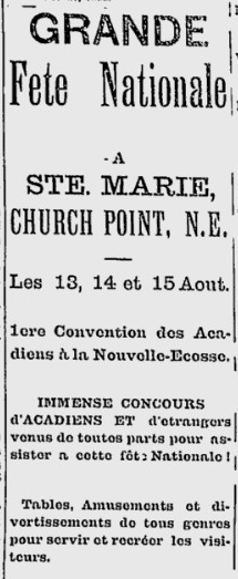 An article announcing the third Acadian National Convention in Church Point, Nova Scotia.